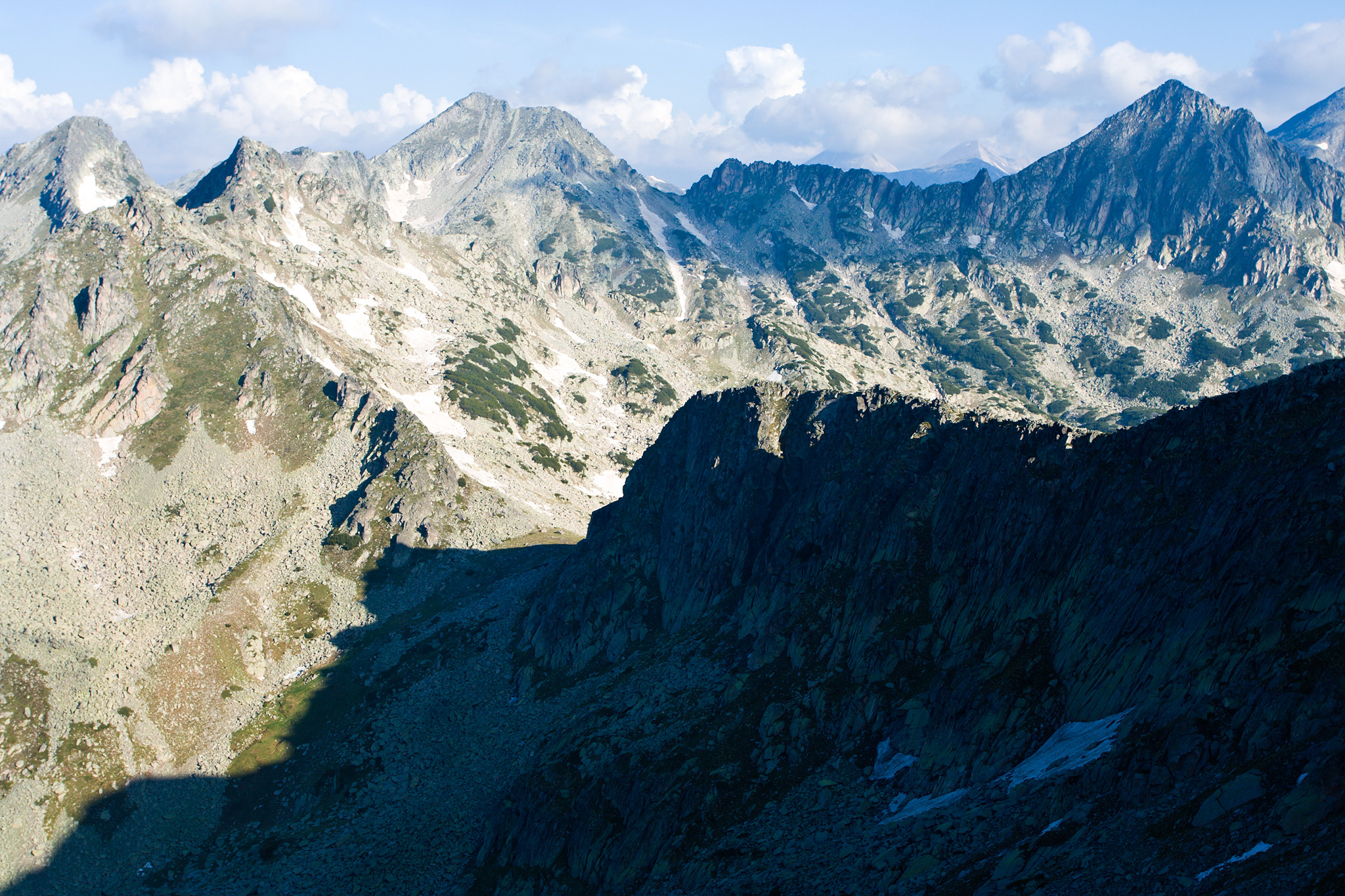 The Demirkapia saddleback in Northern Pirin mountain, Bulgaria